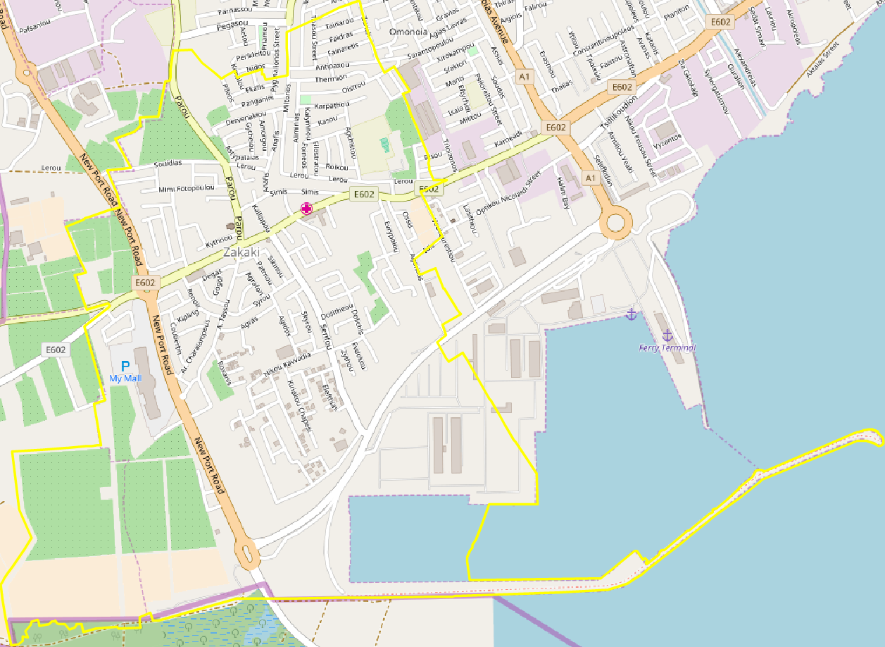 Map of Zakaki.